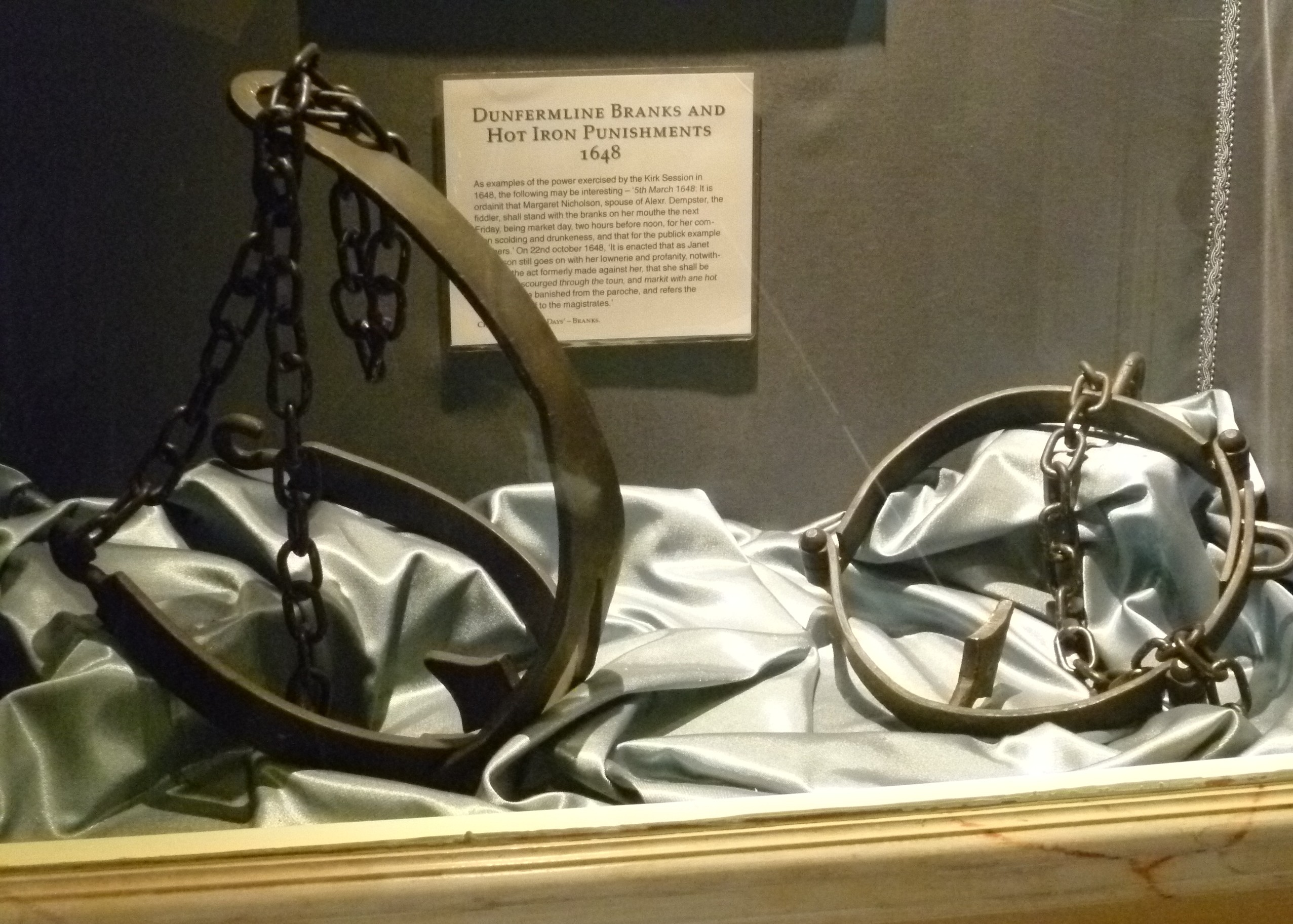 Scottish branks (scold's bridles), Abbot House Dunfermline